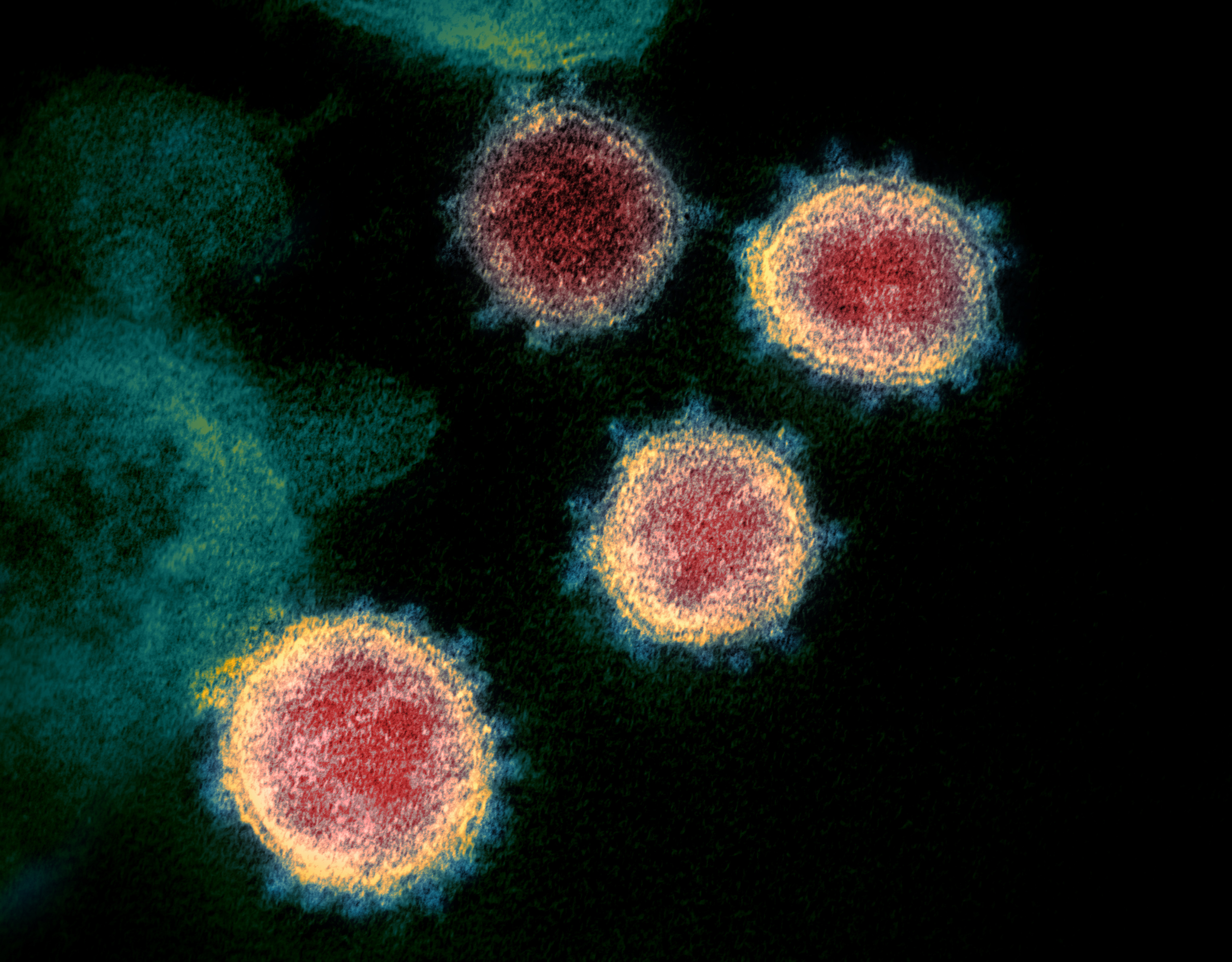 This transmission electron microscope image shows SARS-CoV-2—also known as 2019-nCoV, the virus that causes COVID-19—isolated from a patient in the U.S. Virus particles are shown emerging from the surface of cells cultured in the lab. The spikes on the outer edge of the virus particles give coronaviruses their name, crown-like. Credit: NIAID-RML